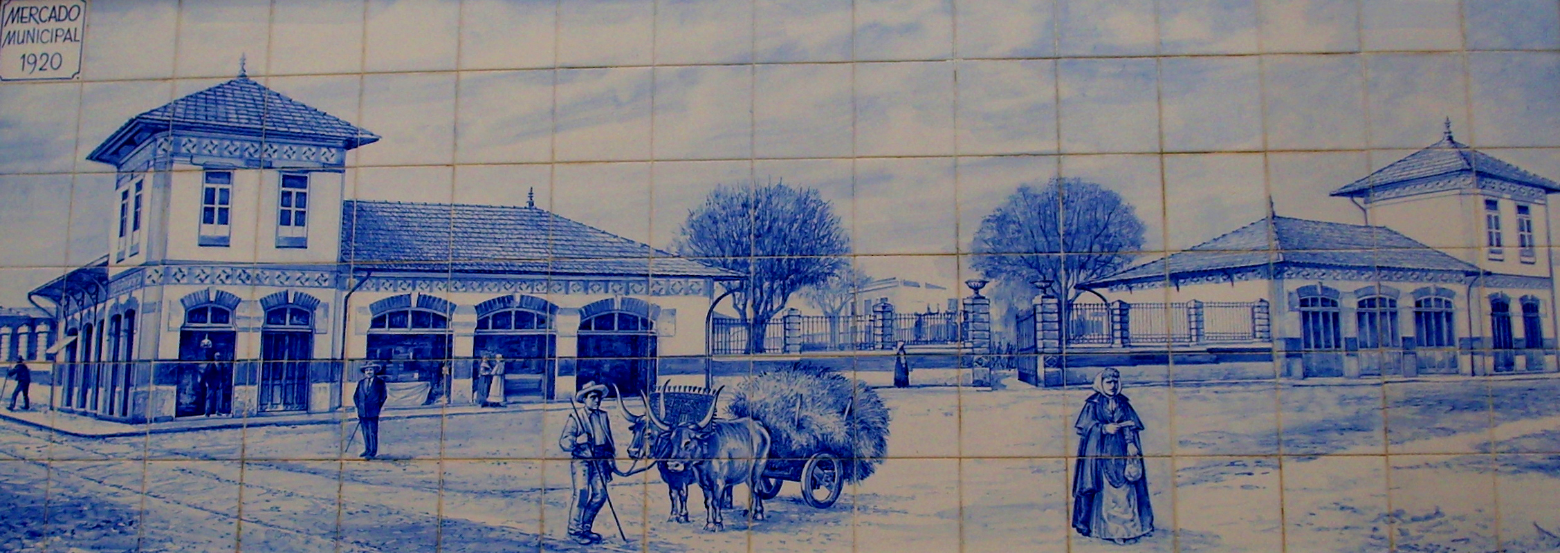 Public market of Póvoa de Varzim in Marques de Pombal Square